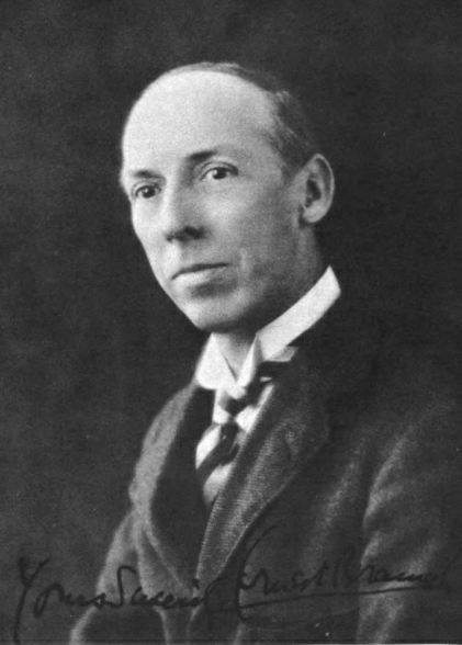 Ernest Bramah (1868-1942), English detective writer and humorist